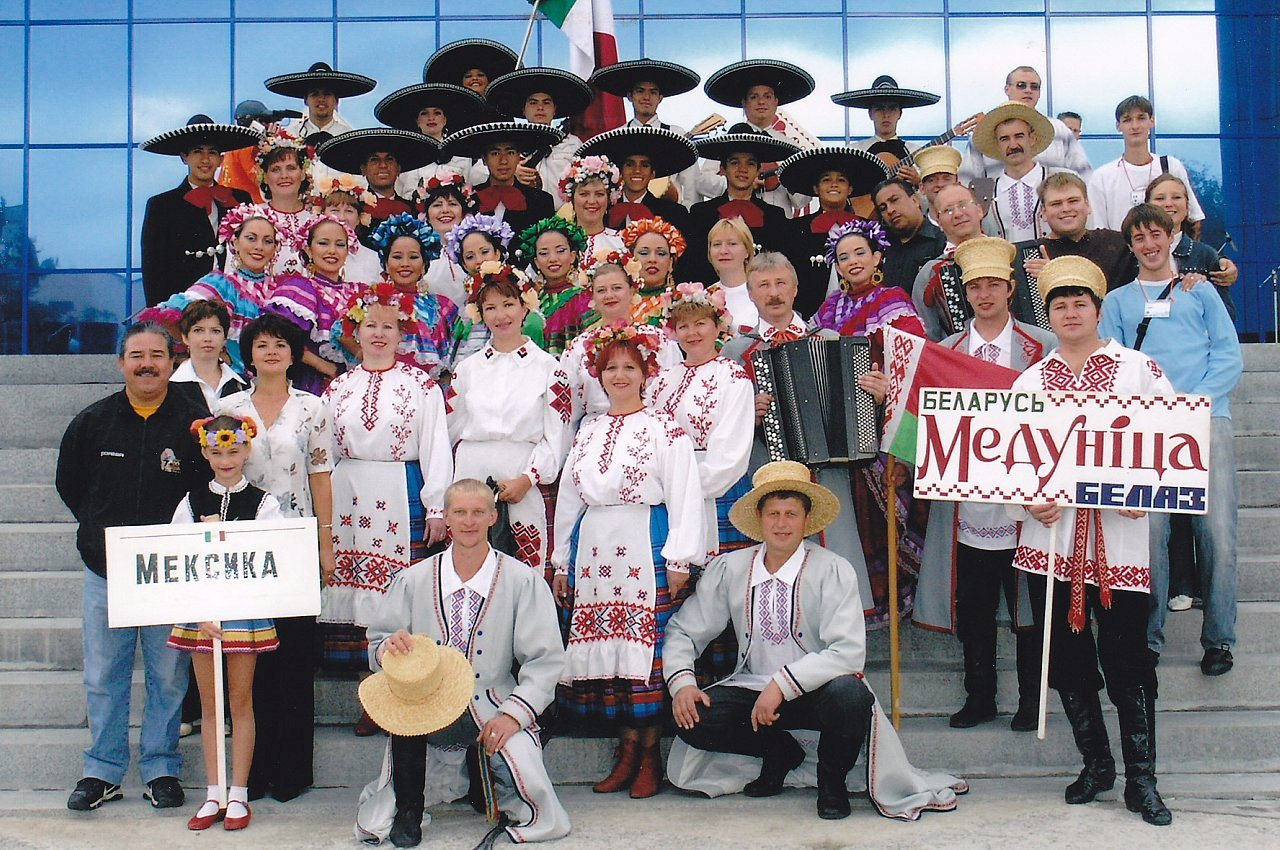 Festival 2006 Poltava region